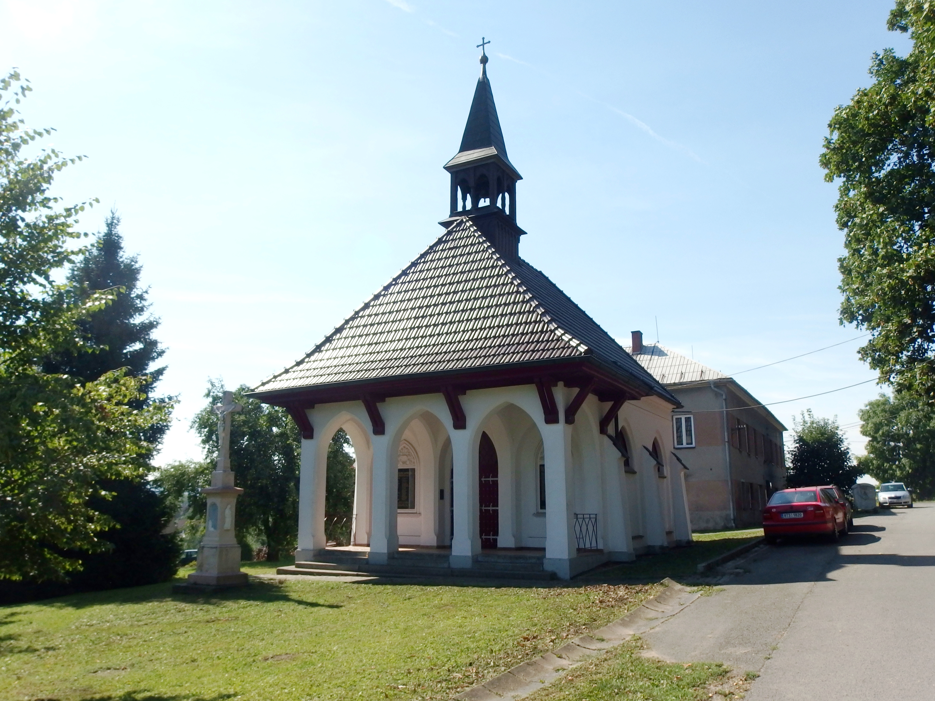 Jeseník nad Odrou, Nový Jičín District, Czech Republic, part Blahutovice.